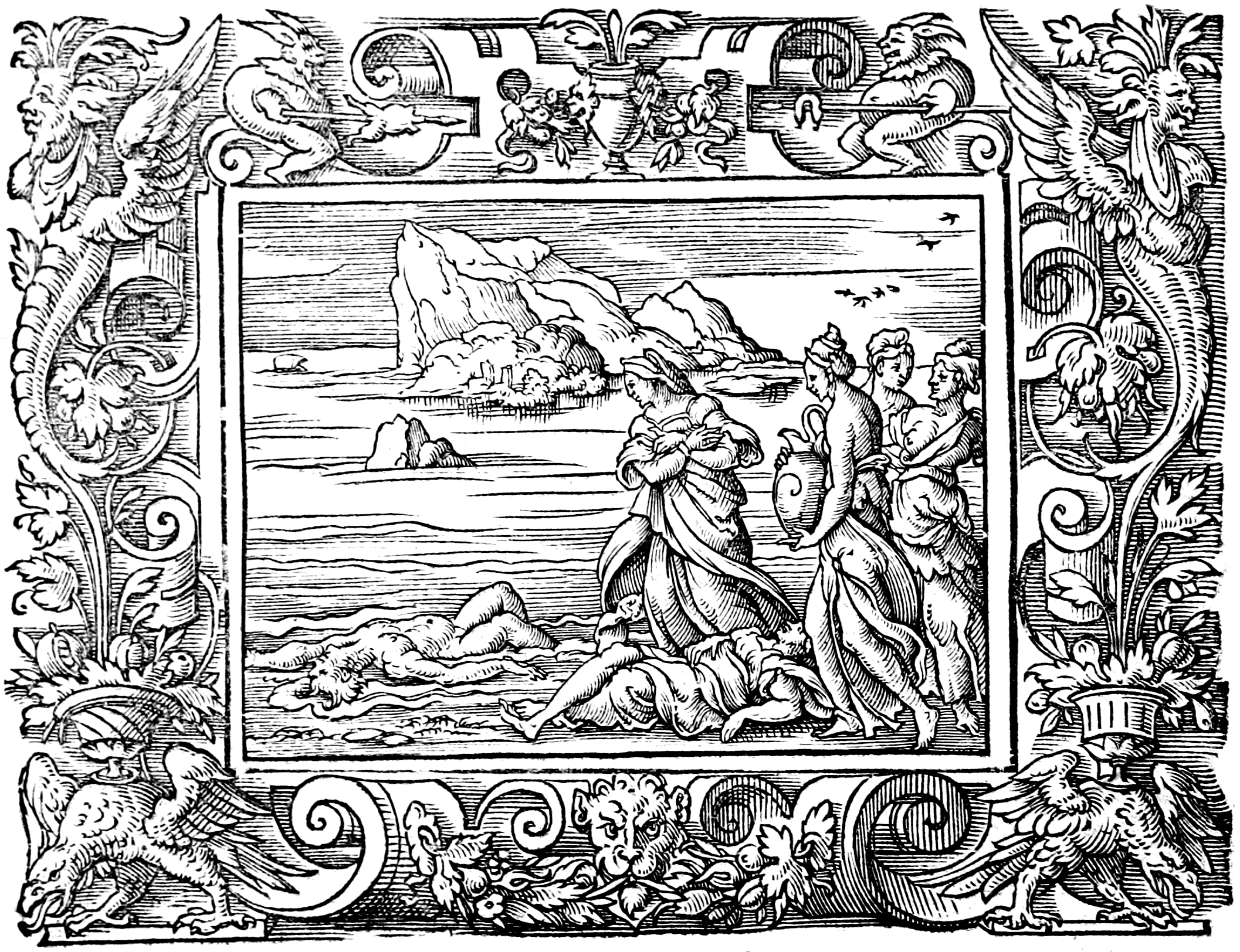 Virgil Solis for Ovid's Metamorphoses Book XIII, 523-544.